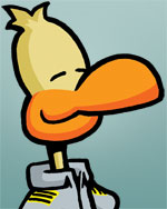 The Chicken Wings character Nubo